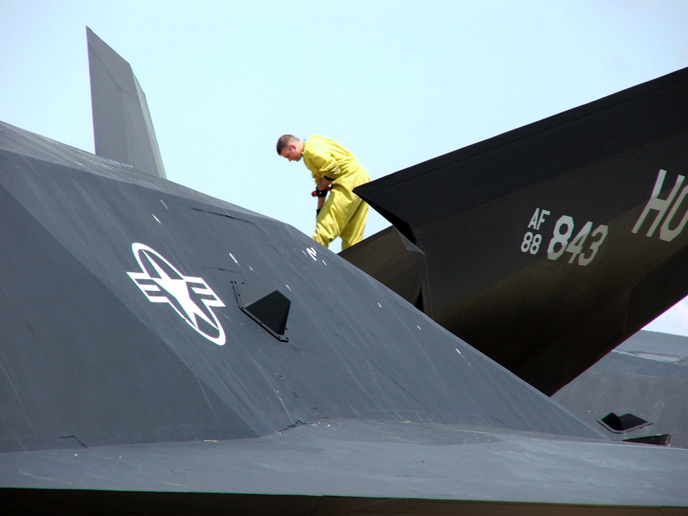 Lockheed F-117 Nighthawk V-tail